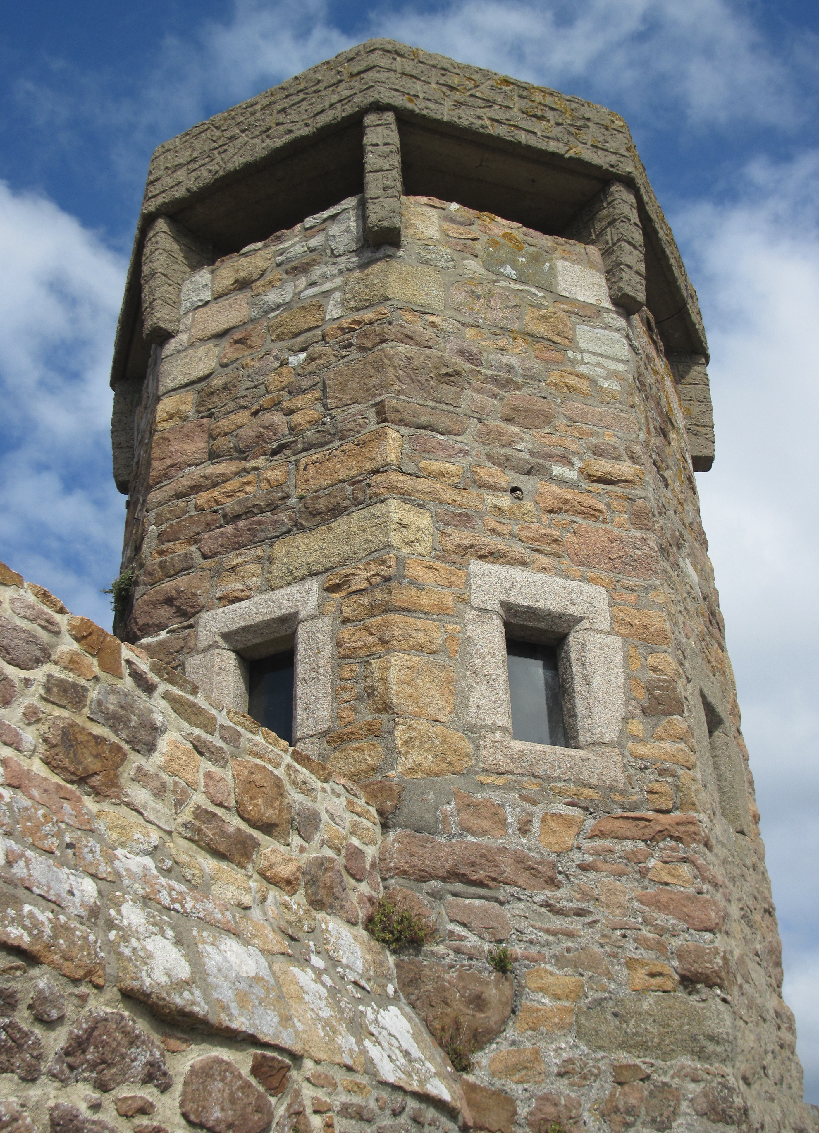 12 September 2009: Saint Clement, Grouville, Saint Martin, Jersey